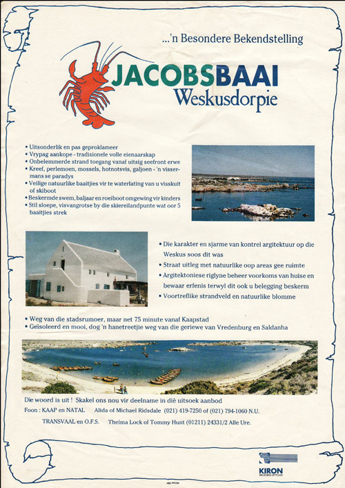 initial phases of the Jacobsbaai town development